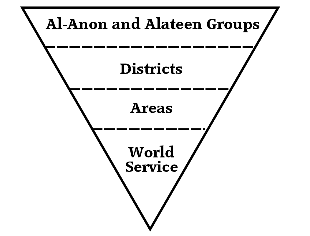 General rendition of the Al-Anon and Alateen organization structure.